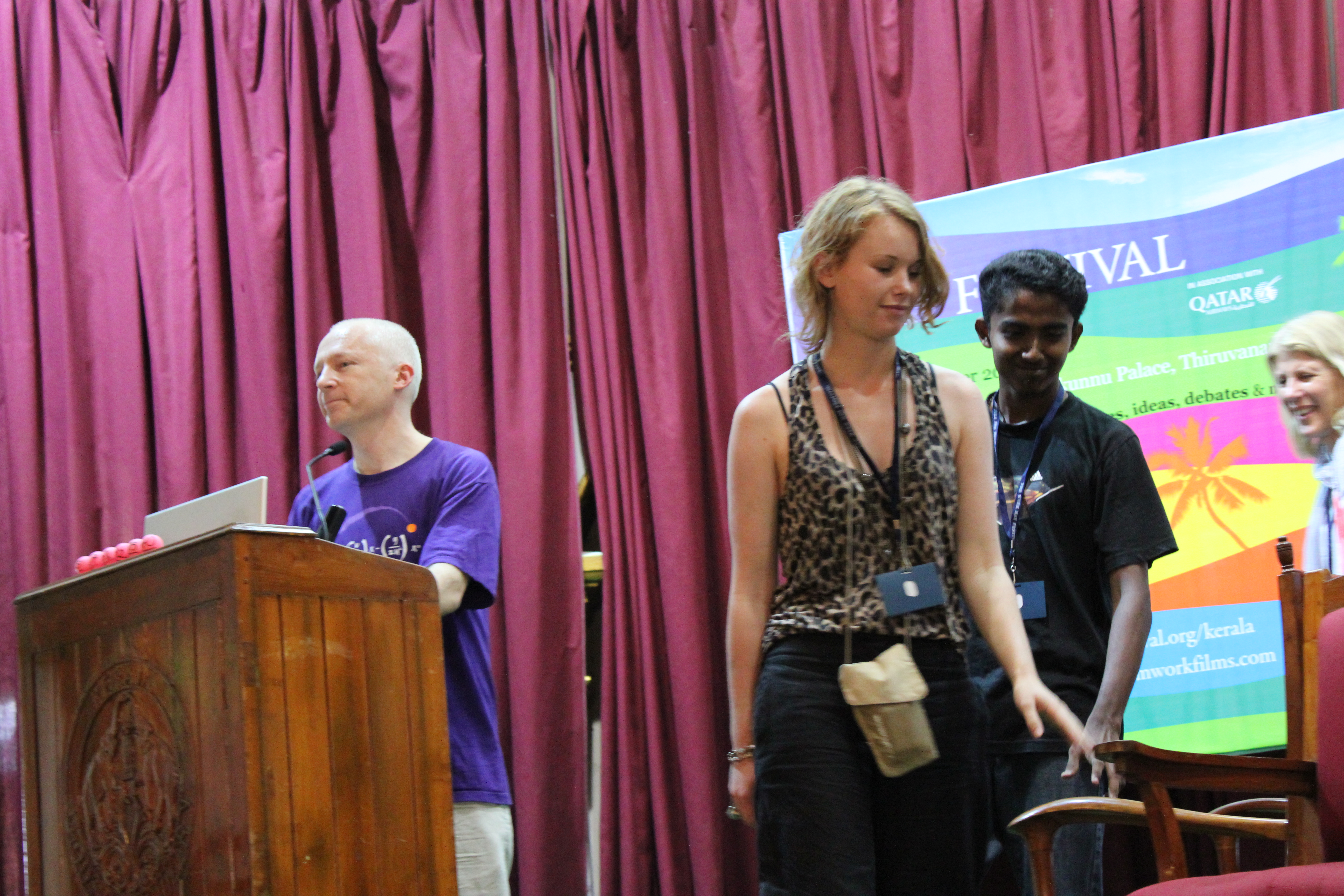 Oxford University mathematician Marcus DuSautoy (extreme left) during a session at the inaugural THE WEEK Hay Festival Kerala. The festival was held at the Kanakakunnu Palace, Thiruvananthapuram.